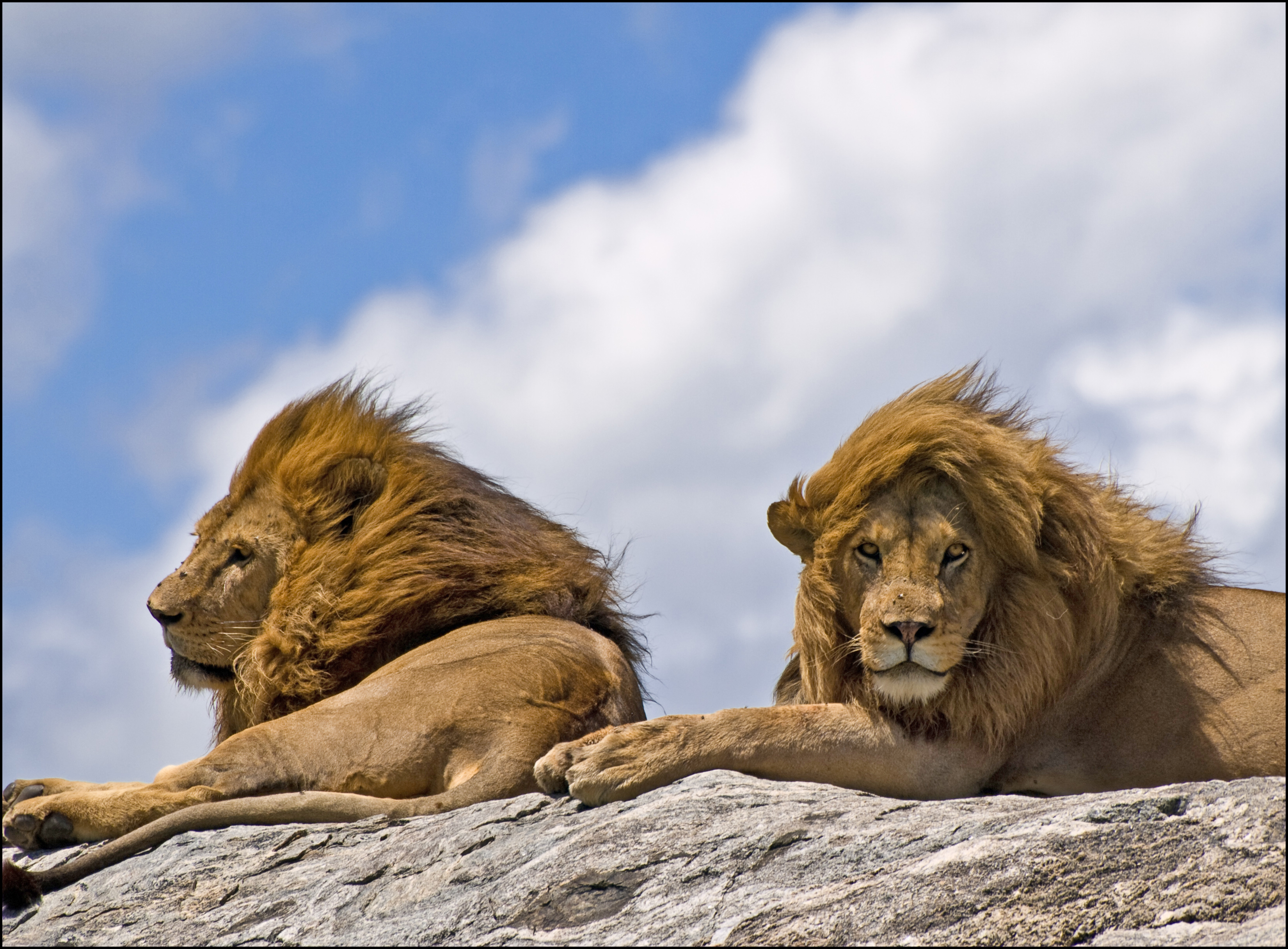 Close-up on a pair of male lions basking in the sun on a rocky outcrop in the Serengeti National Park, Tanzania